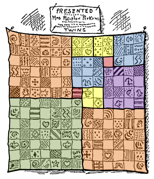 Illustration of "Mrs. Perkins's Quilt" from: Henry Dudeney: Amusements in Mathematics, 1917. – colorized: solution